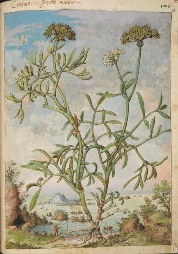 Gherardo Cibo, Herbal, BL MS. Add. 22332 f 168r Crithmum maritimum